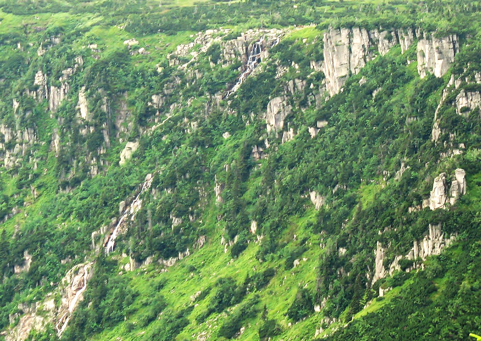 The watterfall Pančavský vodopád in the Krkonoše Mts., Czech republic